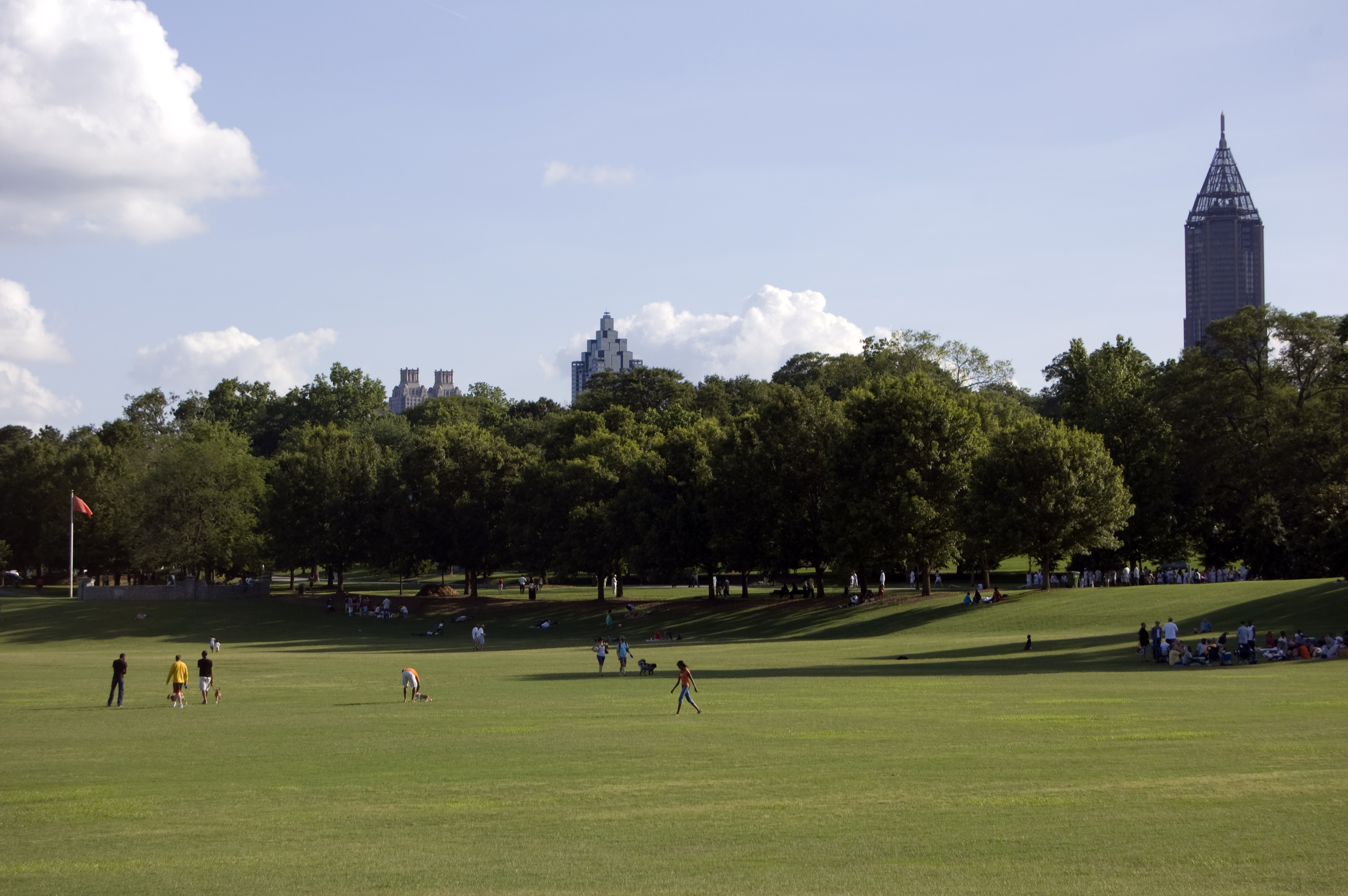 The Meadow of Piedmont Park with Midtown and Downtown Atlanta in the background.